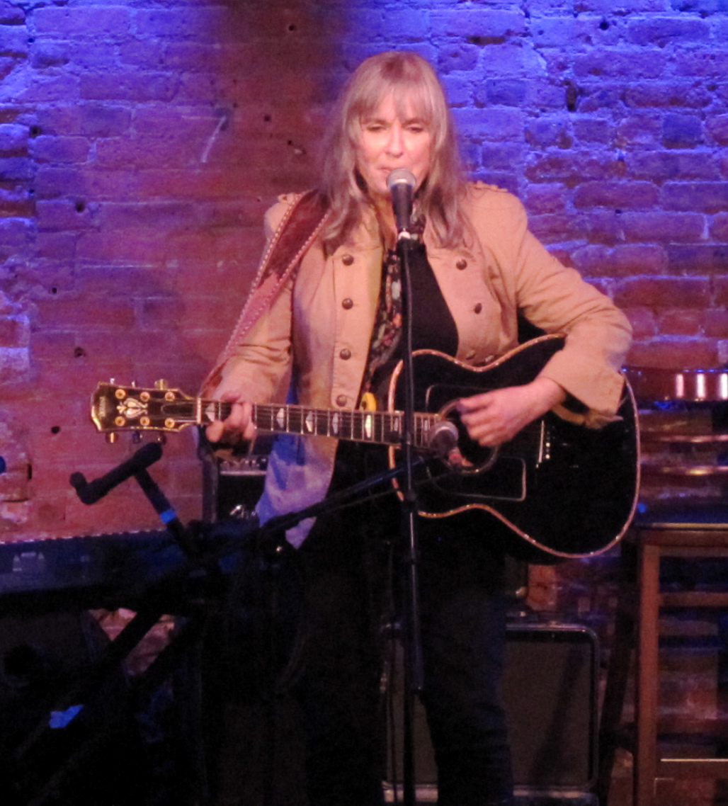 Folk singer Sylvia Tyson performs her hit song "You Were On My Mind" at Gerde's Folk City's 50th Anniversary Live Music Reunion concert, held at The Village Underground, 130 W. 3rd St., New York City, the basement music room connected to the final home of Folk City.